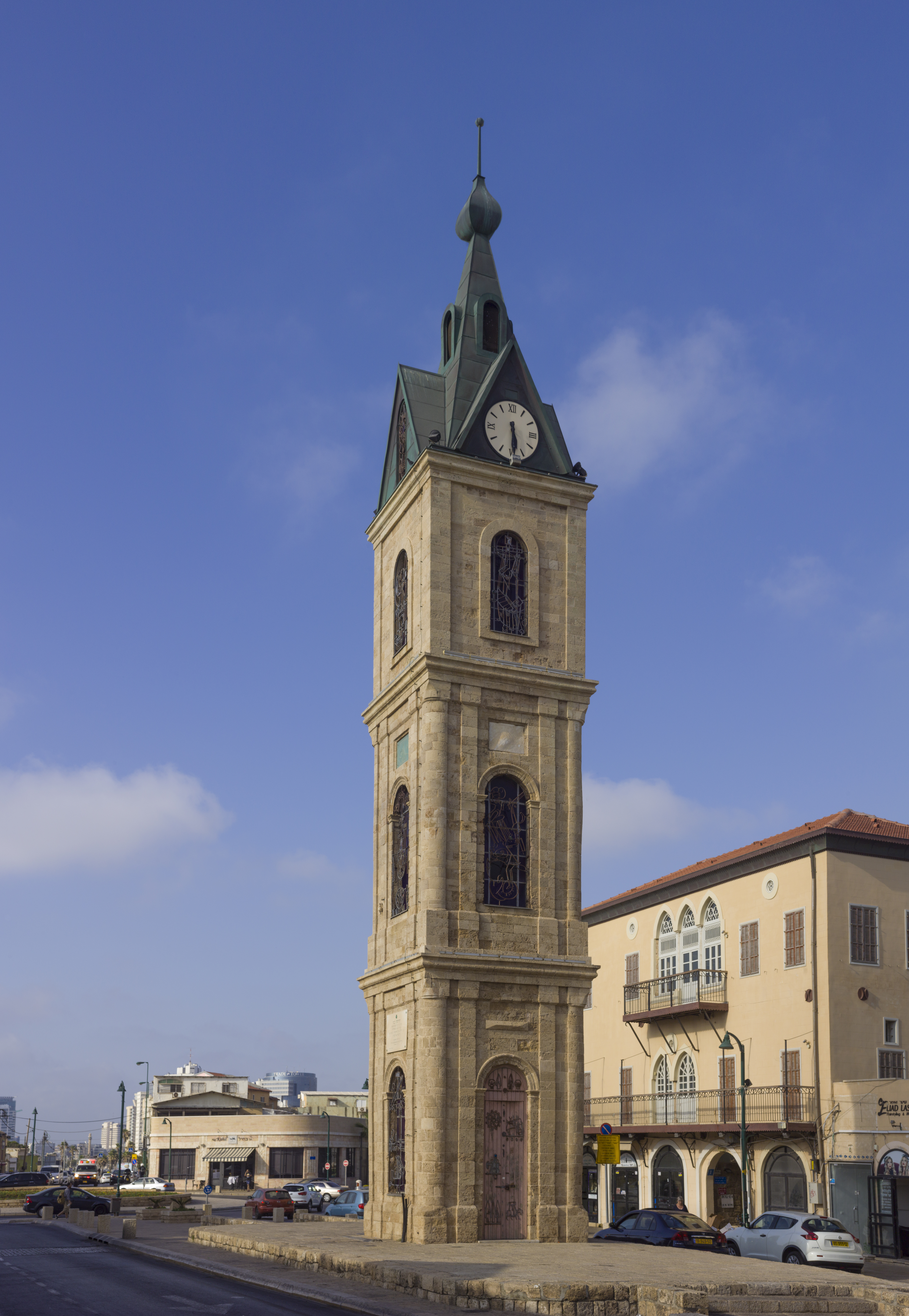 Jaffa Clock Tower constructed between 1900 and 1903 during the Ottoman period.